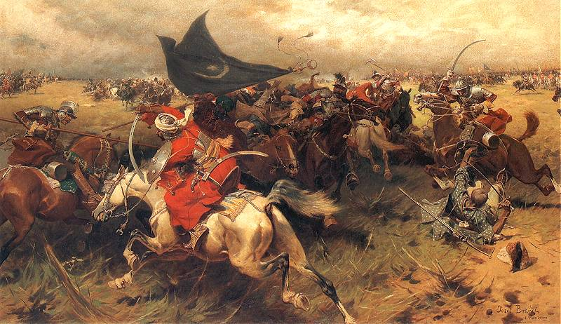 Sipahis of the Ottoman Empire at Vienna. Ottoman Sipahis in battle holding the Crescent Banner (by Józef Brandt). "Battle over the Turkish banner", oil on canvas 1905. Probably 16th-17th century, during one of the conflicts between Polish-Lithuanian Commonwealth and the Ottoman Empire.